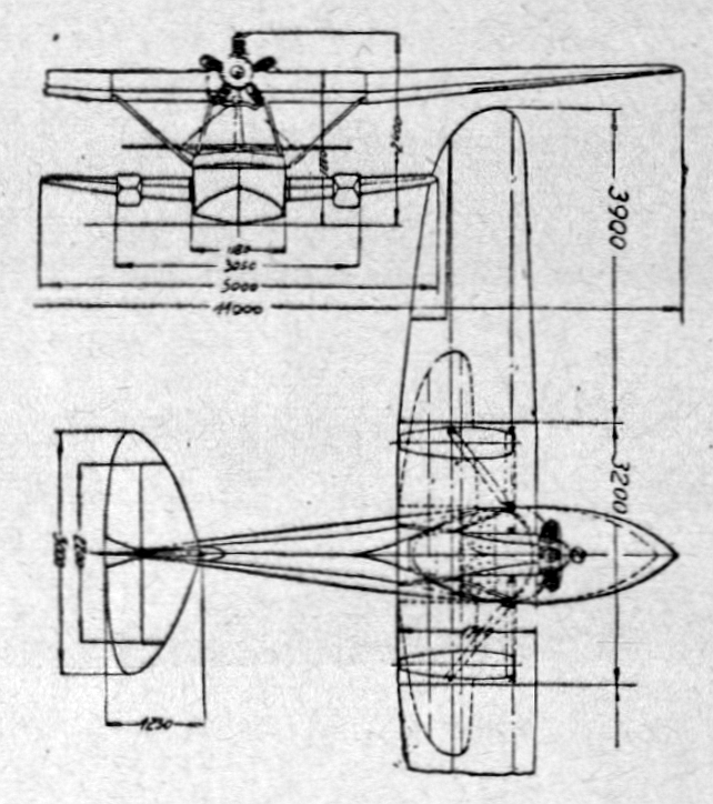 Shavrov Sh-1 and Walter NZ-60 (layout 2). One of the proposals - on the final version was the engine Walter NZ-85